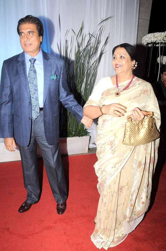 Raj Babbar, Nadira Babbar at Esha Deol's wedding reception